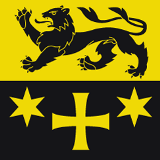 Flag of Oberriet, Canton of St. GallenEsperanto: Blazono de Oberriet, Kantono de Sankt-Galo